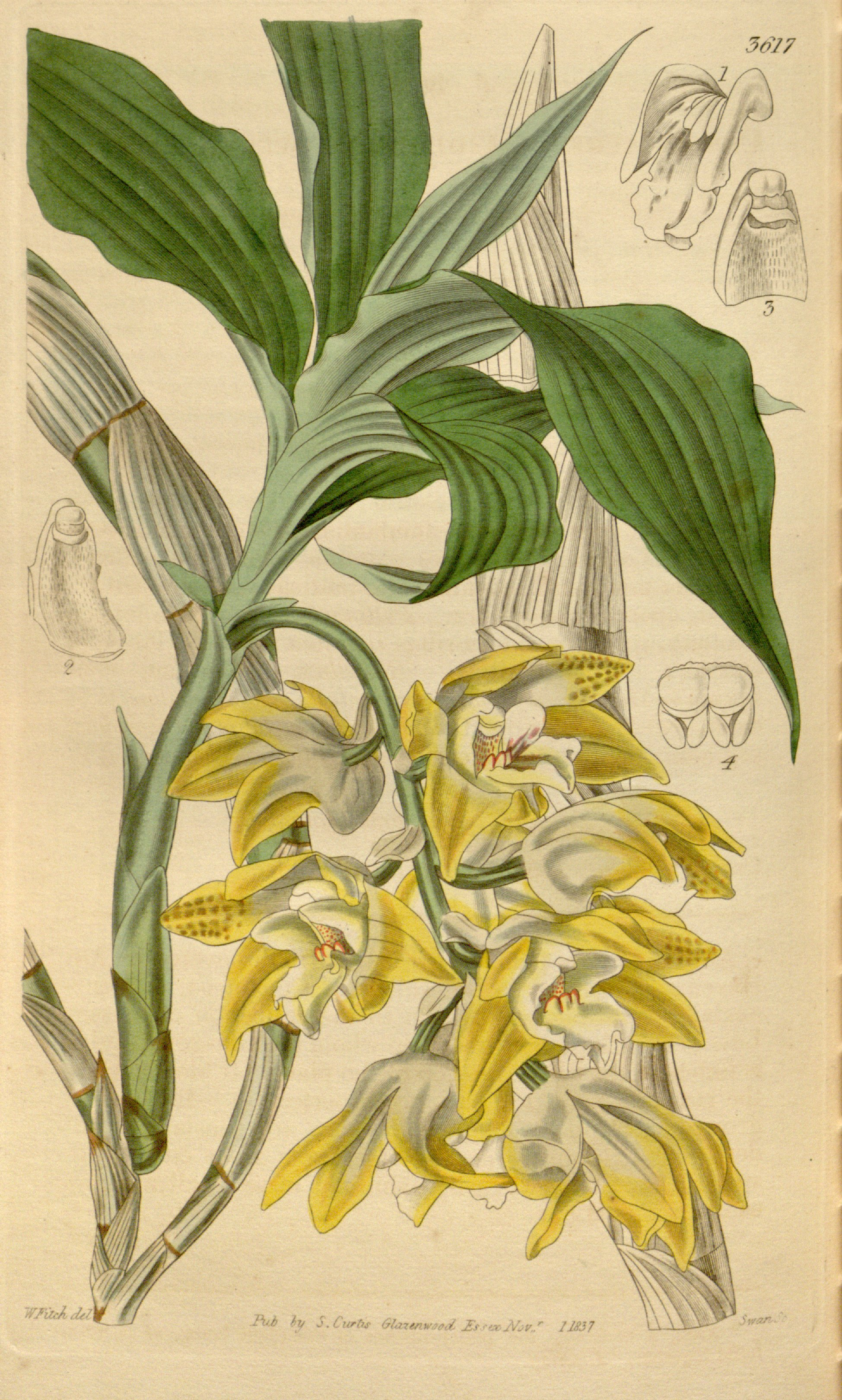 Illustration of Chysis aurea